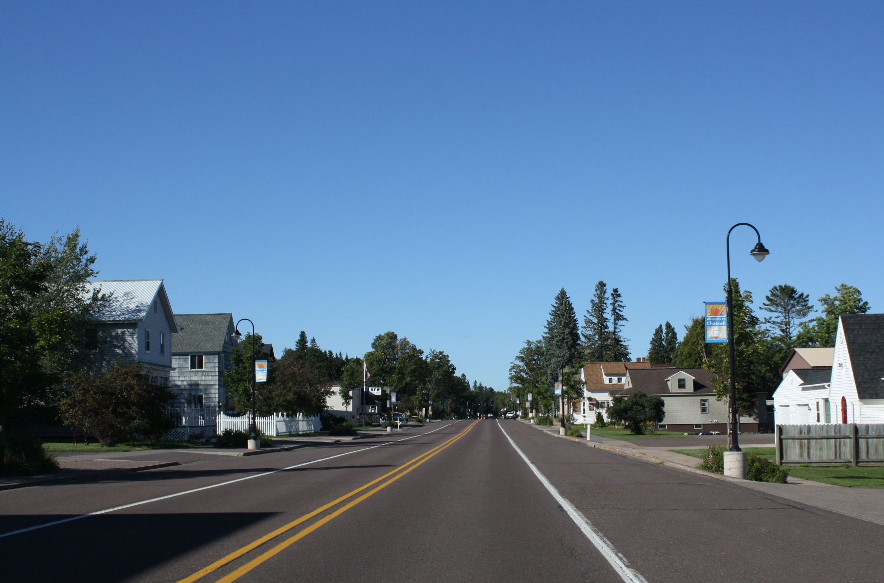 Downtown Chassell, Michigan on U.S. Route 2 / U.S. Route 41.